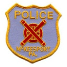 The full-color patch of the City of McKeesport Police Department.